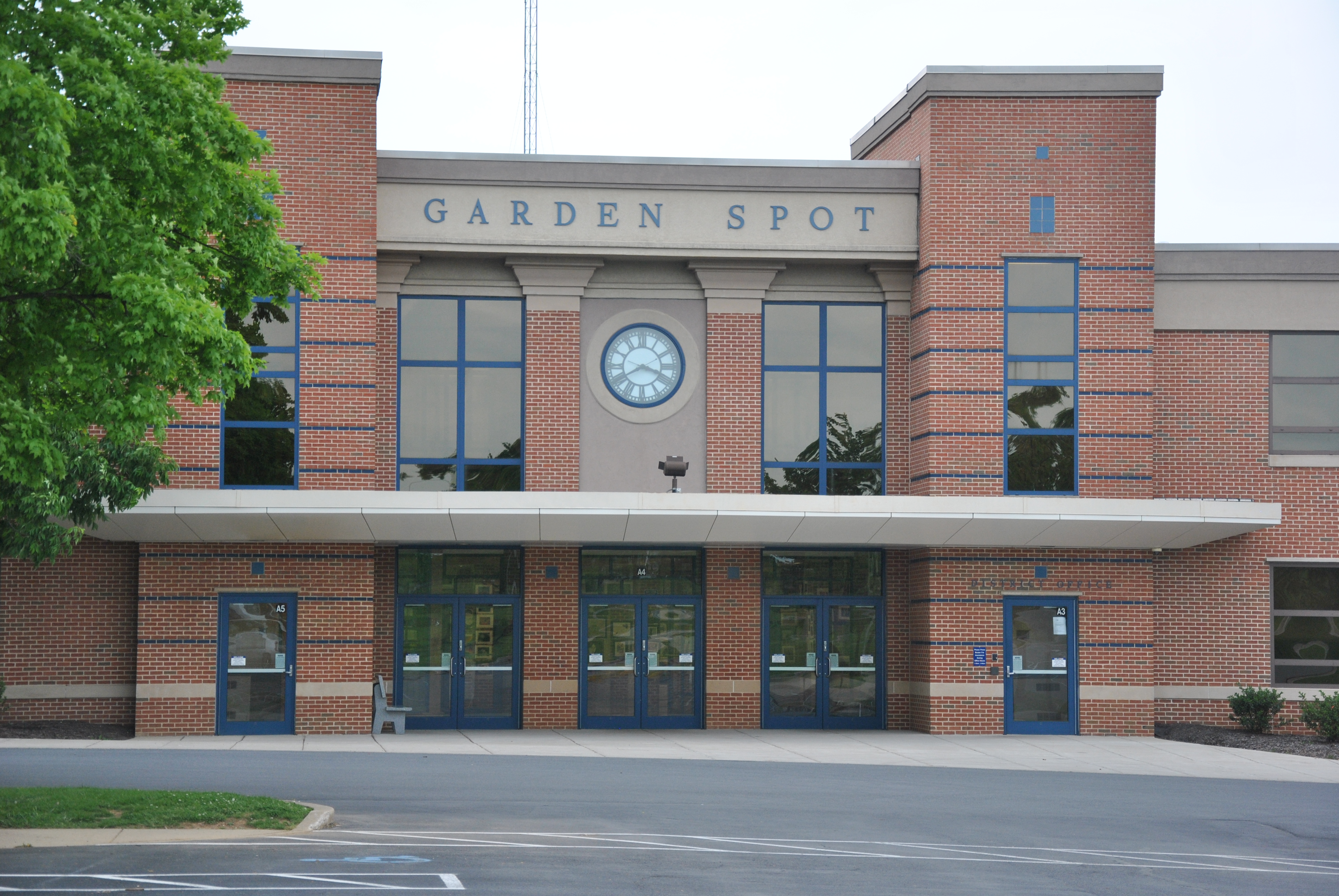 Garden Spot High School and Middle School Building taken May 2013